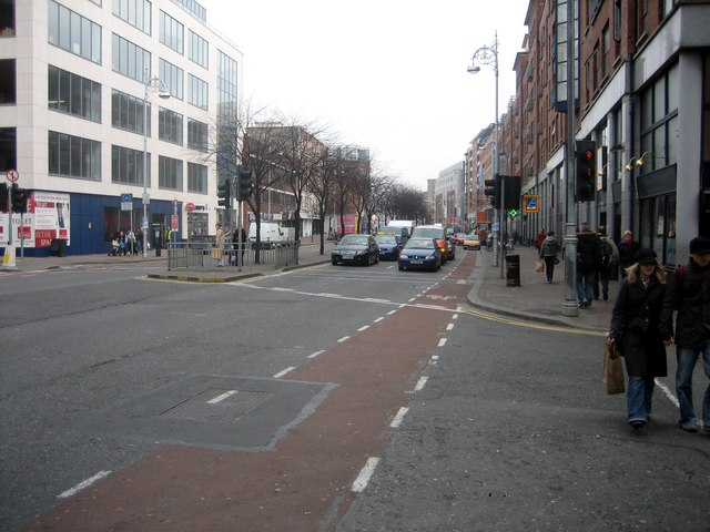 Parnell Street, Dublin 1